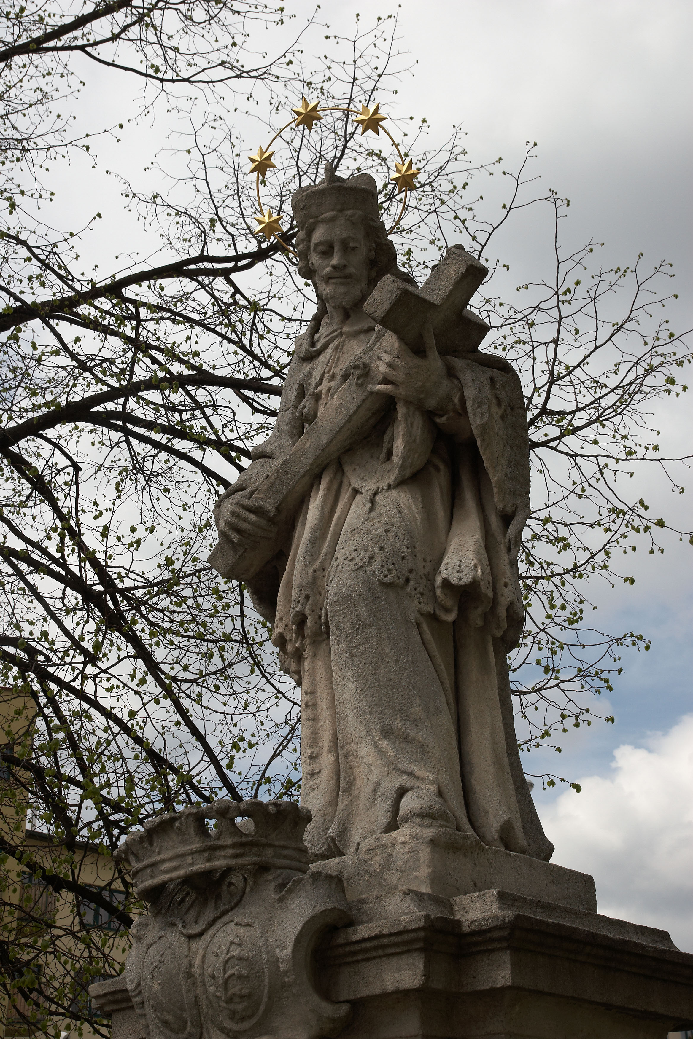 Brno Medlánky, statue of St. John Nepomucene closeup